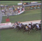 Grey Way beating a field of champions to win the Easter Handicap at Ellerslie Racecourse.